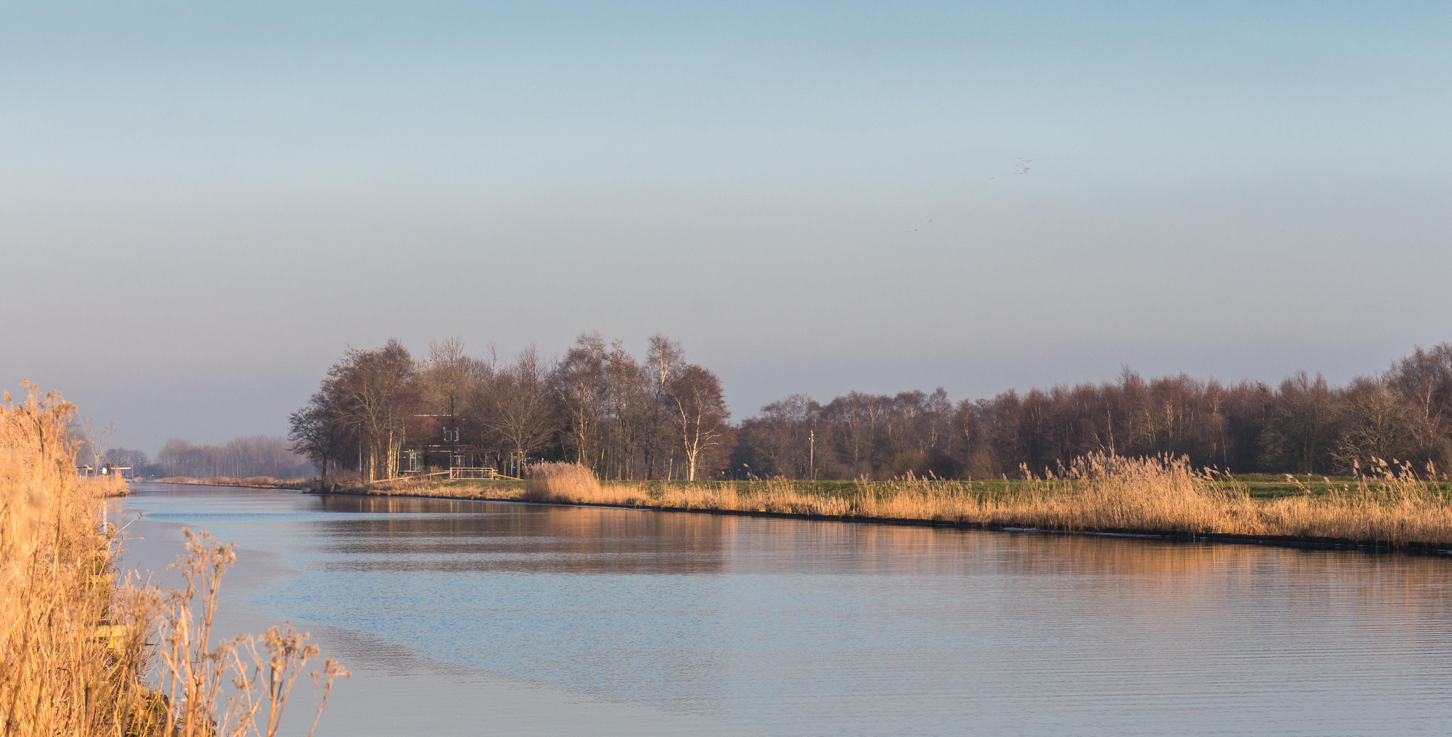 Walks through the low moorland marshes. View of the Heafeart.